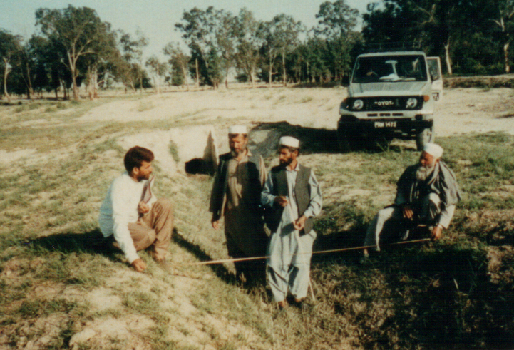 Ahmed Said Khadr's landcruiser